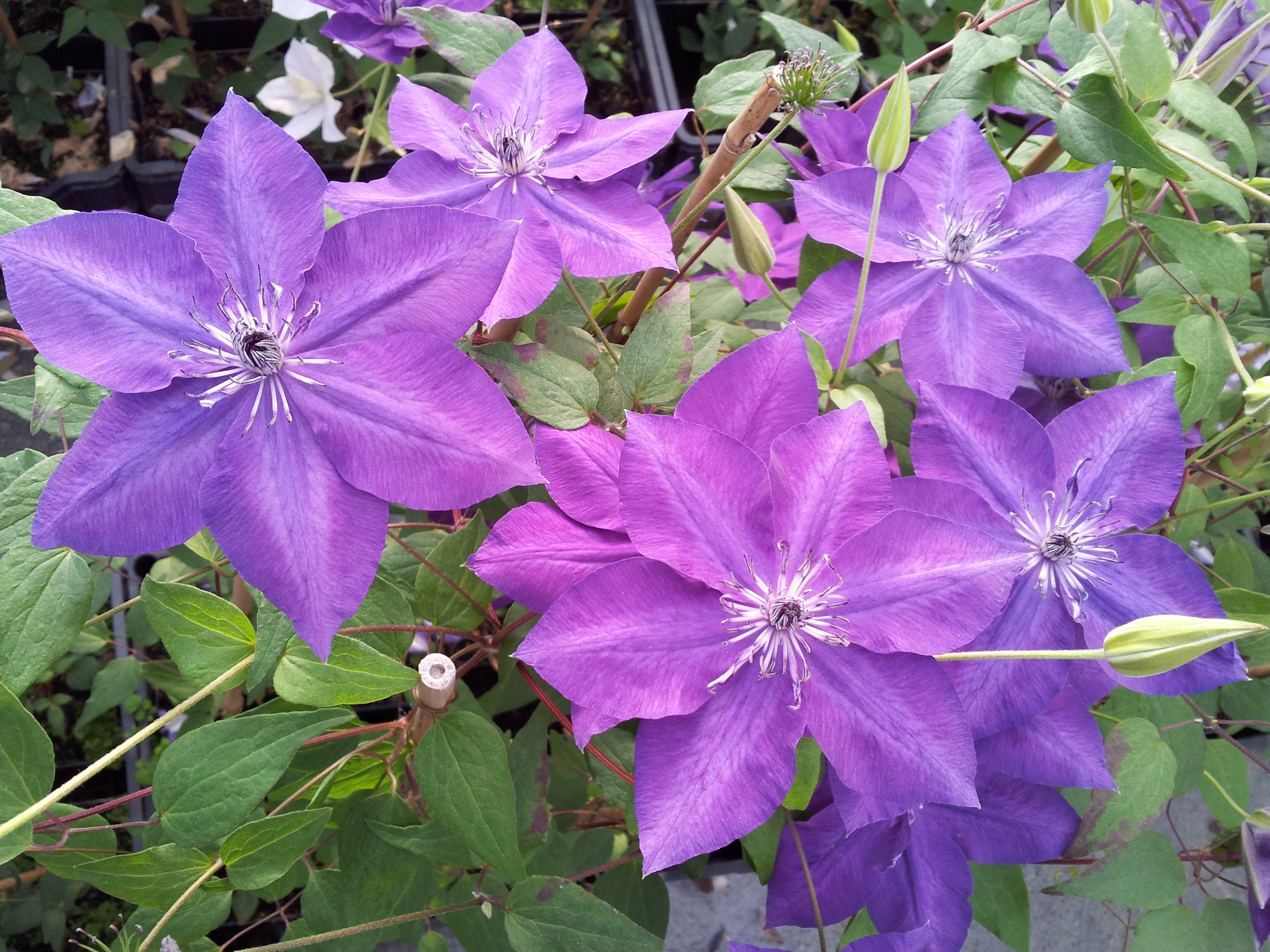 Clematis Amethyst Beauty 'Evipo043'